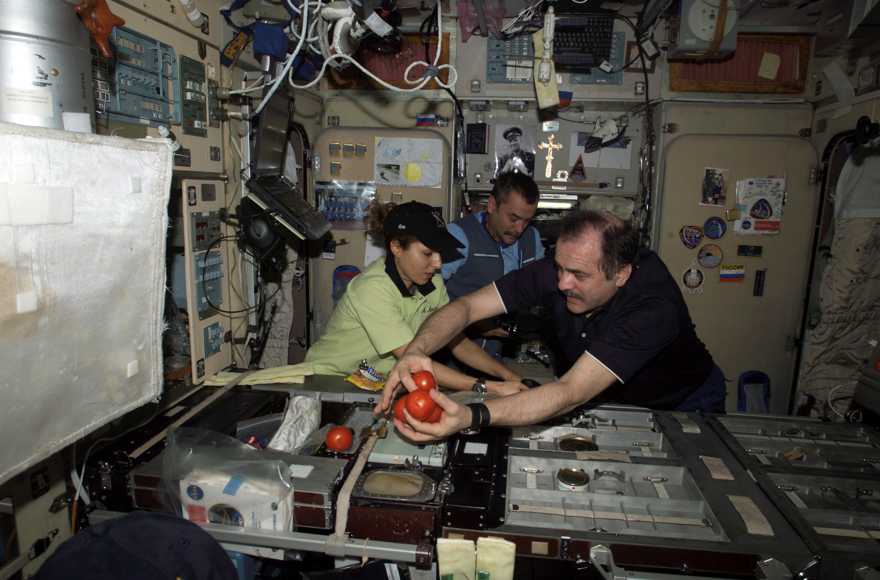 Spaceflight participant Anousheh Ansari (left), cosmonaut Mikhail Tyurin, Expedition 14 flight engineer representing Russia's Federal Space Agency; and cosmonaut Pavel V. Vinogradov, Expedition 13 commander representing Russia's Federal Space Agency, prepare to eat a meal at the galley in the Zvezda Service Module of the International Space Station.